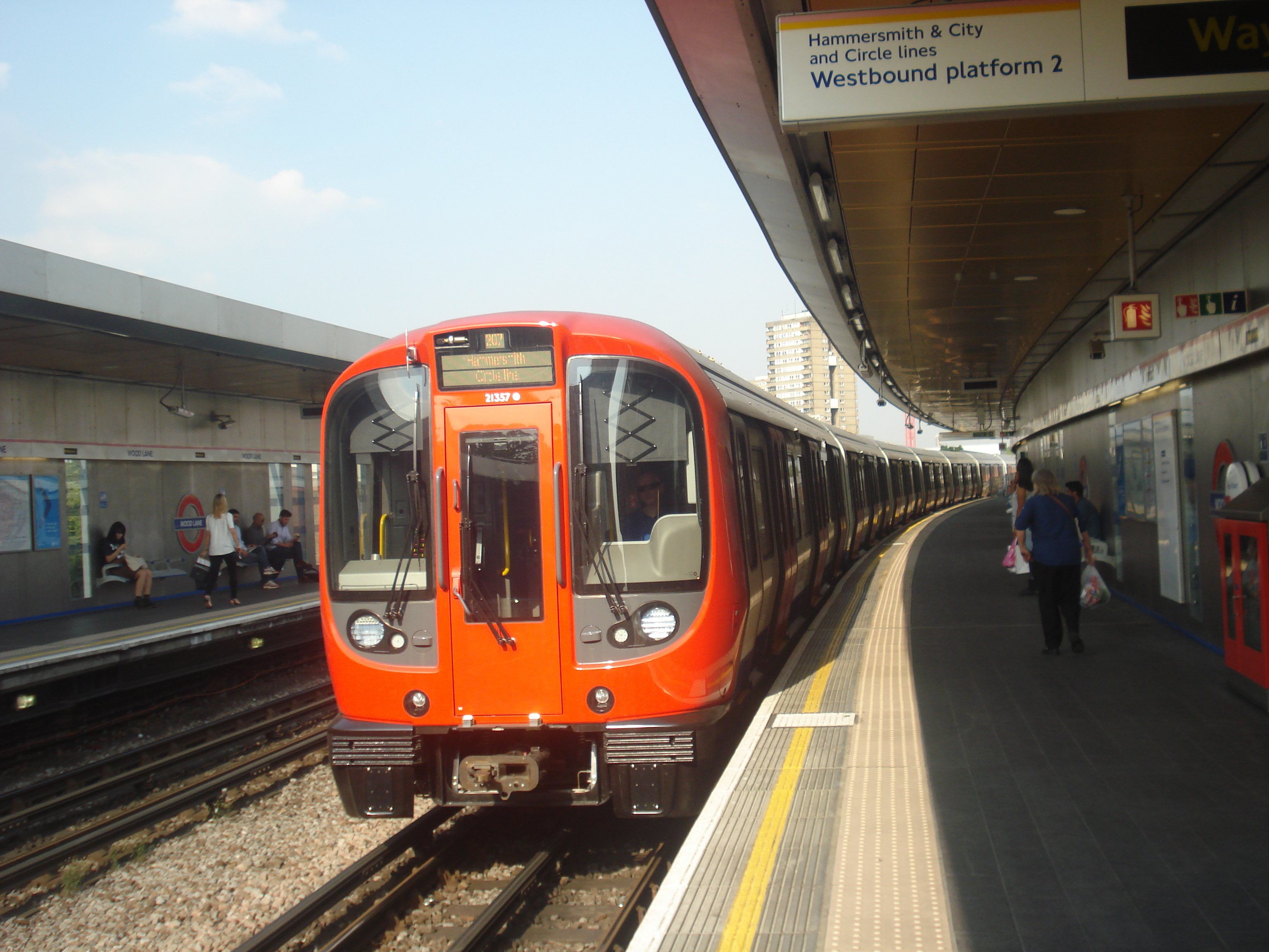 S7 21357 on Circle Line, Wood Lane*